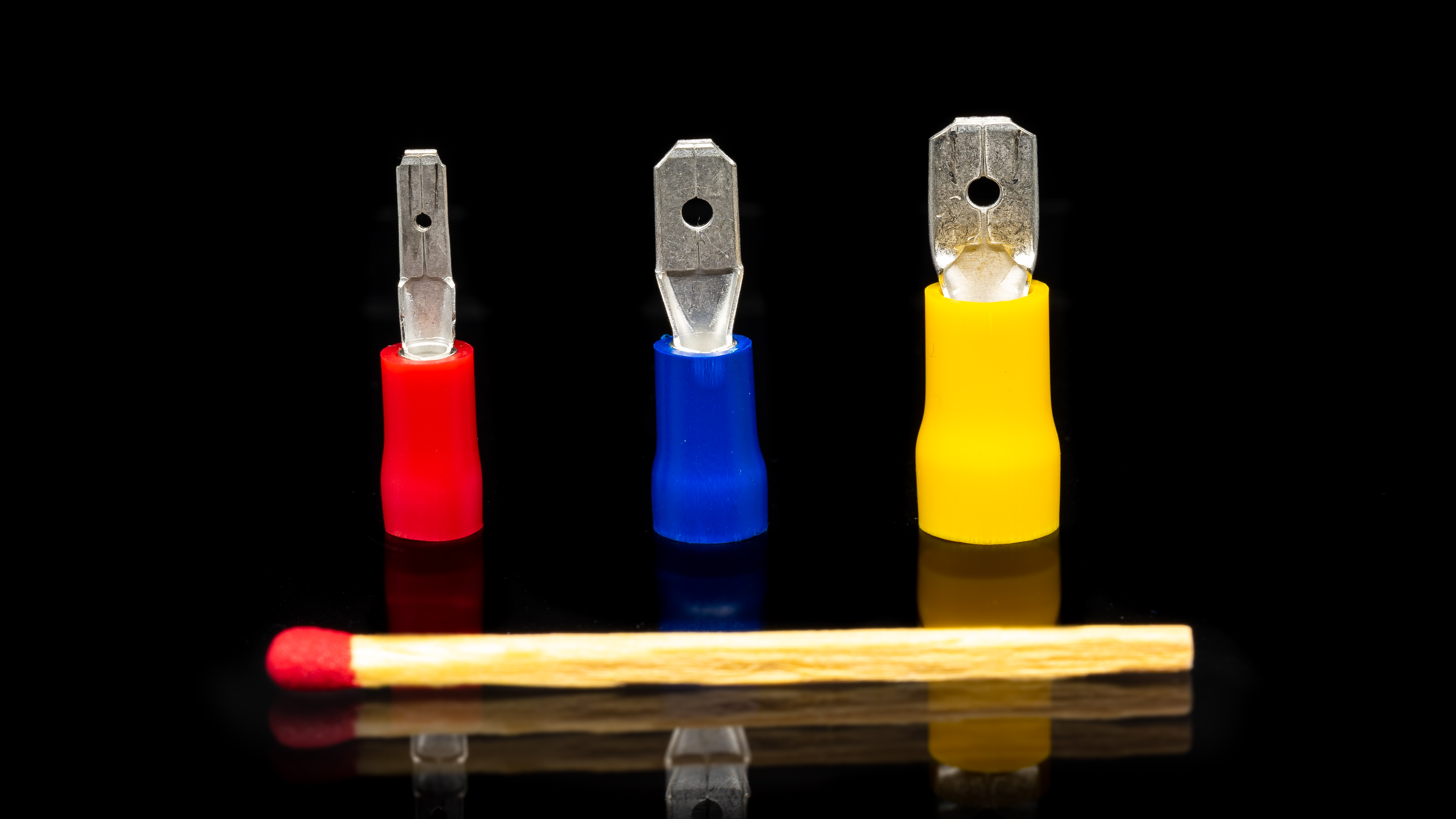 Three Faston style male terminals in three different sizes.